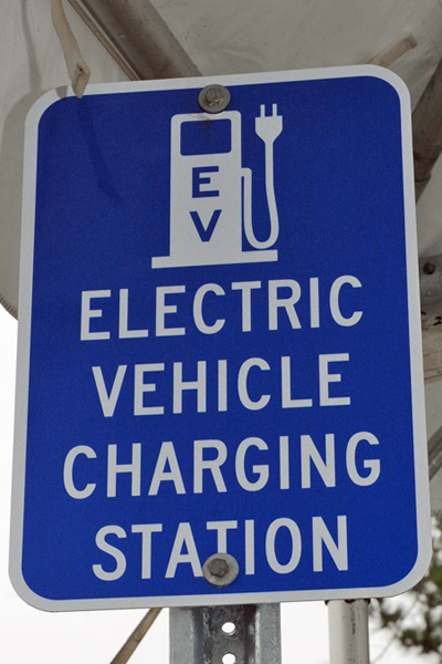 EV Charging Station sign, Durham, North Carolina